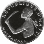 Haitian coin (20 gourdes) bearing the image of François Mackandal, leader of a slave rebellion.